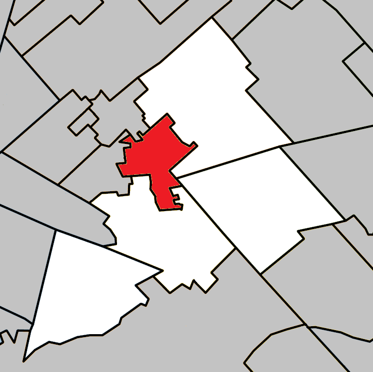 Location of Prévost, Quebec within La Rivière-du-Nord Regional County Municipality.